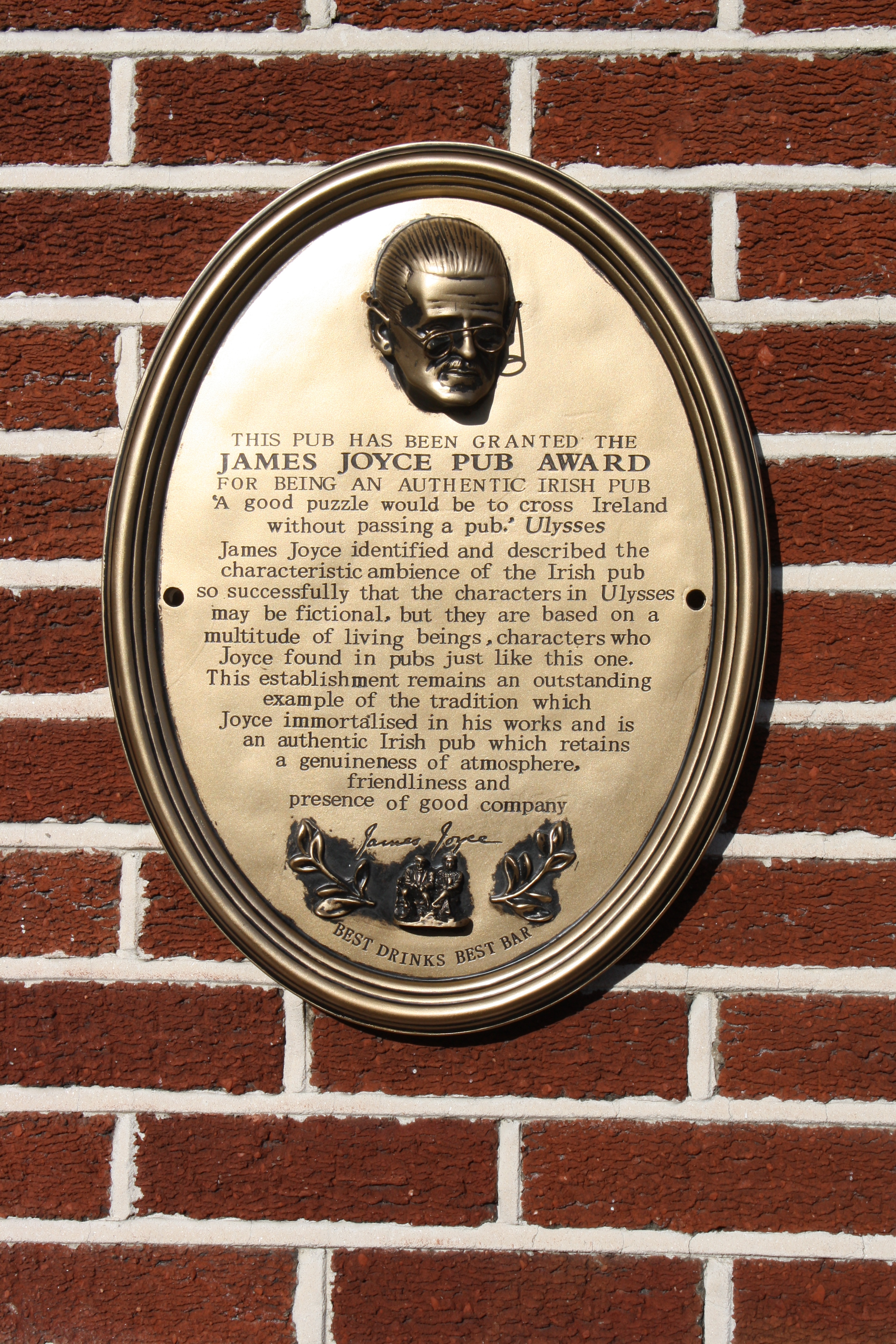 Its a picture i took of the James Pub Award.